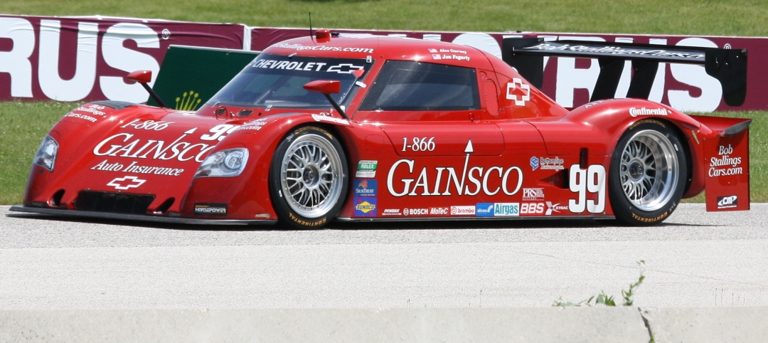 The Daytona Prototype of Jon Fogarty and Alex Gurney racing in Grand-Am sports car at Road America.